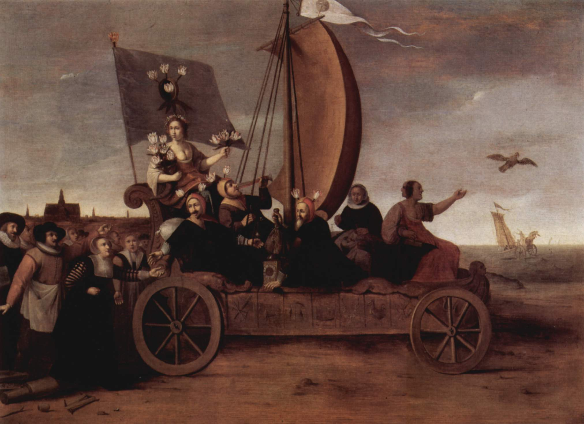 Allegory of the Tulip Mania. The goddess of flowers is riding along with three drinking and money weighing men and two women on a car. Weavers from Haarlem have thrown away their equipment and are following the car. The destiny of the car is shown in the background: it will disappear in the sea.